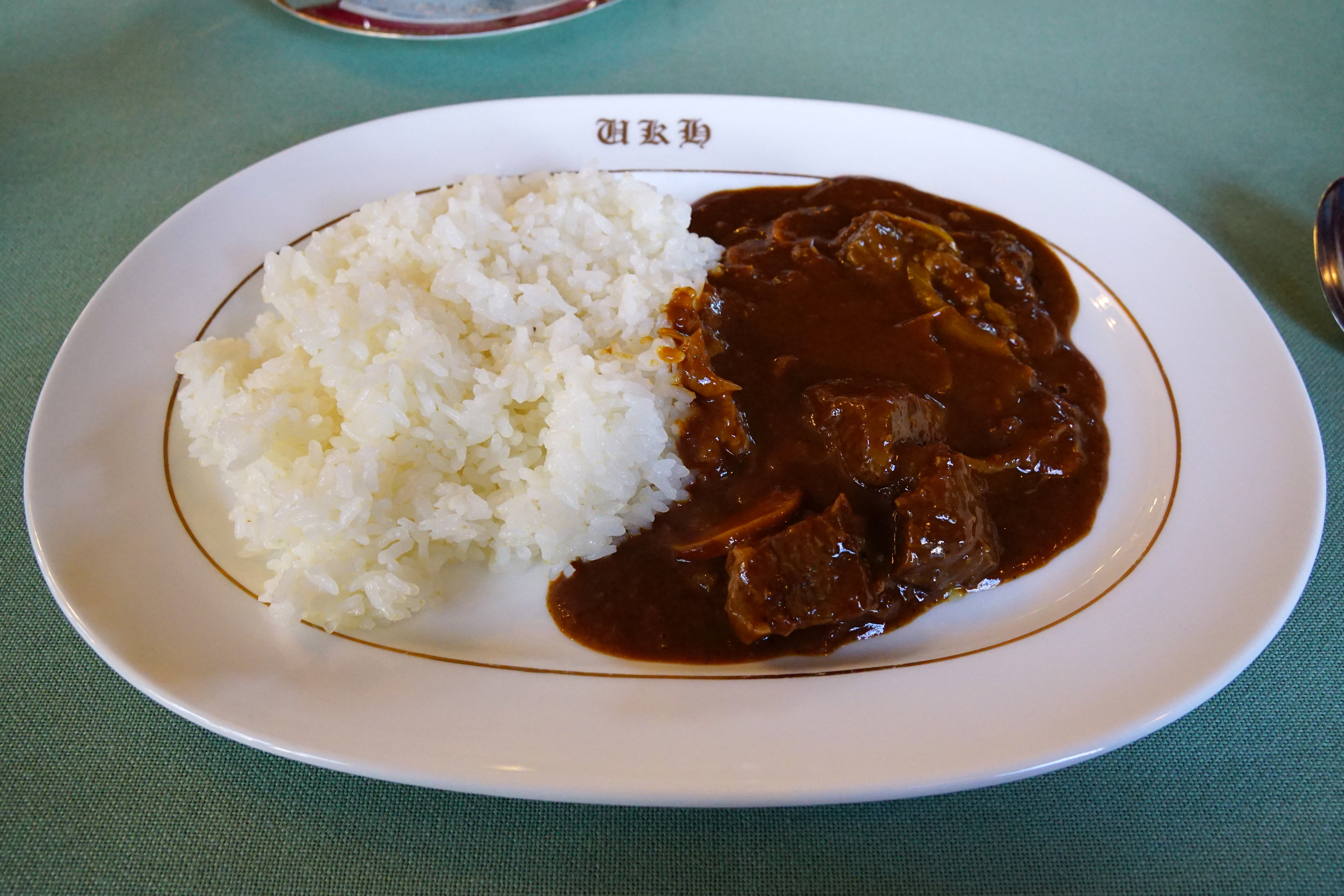 Unzen Kanko Hotel in Unzen City, Nagasaki prefecture, Japan.